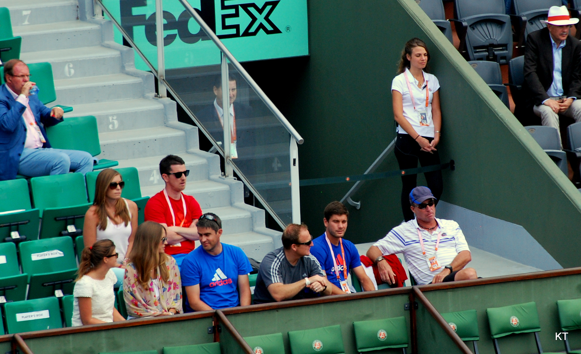 Andy Murray's team watching his 2nd round match with Jarkko Nieminen. Murray won 1-6, 6-4, 6-1, 6-2. Day 5 of Roland Garros 2012.